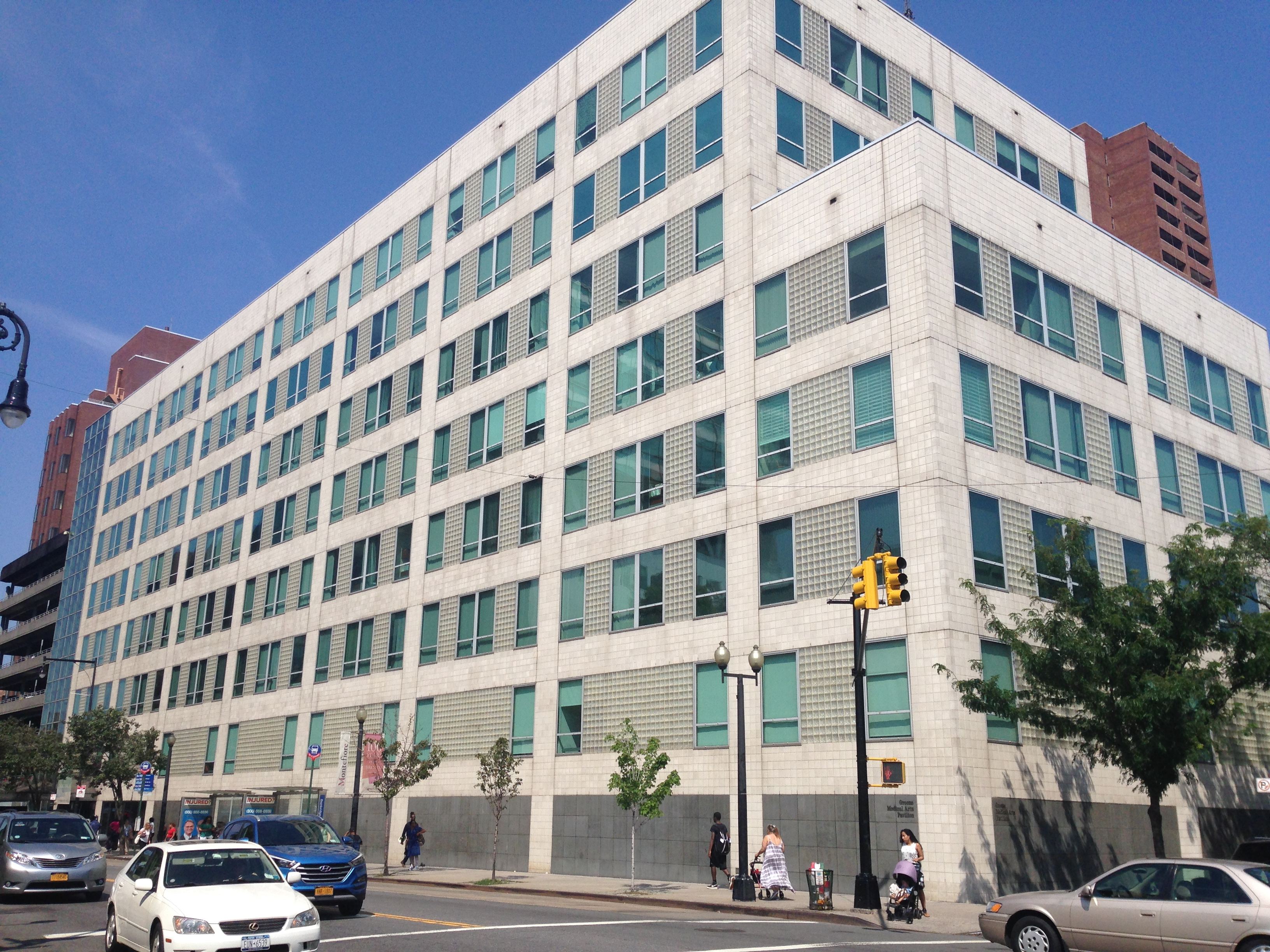 Montefiore Medical Center in Norwood, Bronx. Jerome L. and Dawn Greene Medical Arts Pavilion building.